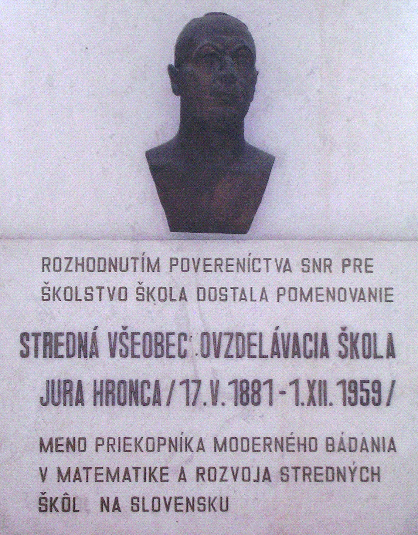 Author: Pokus9999 License: Public Domain